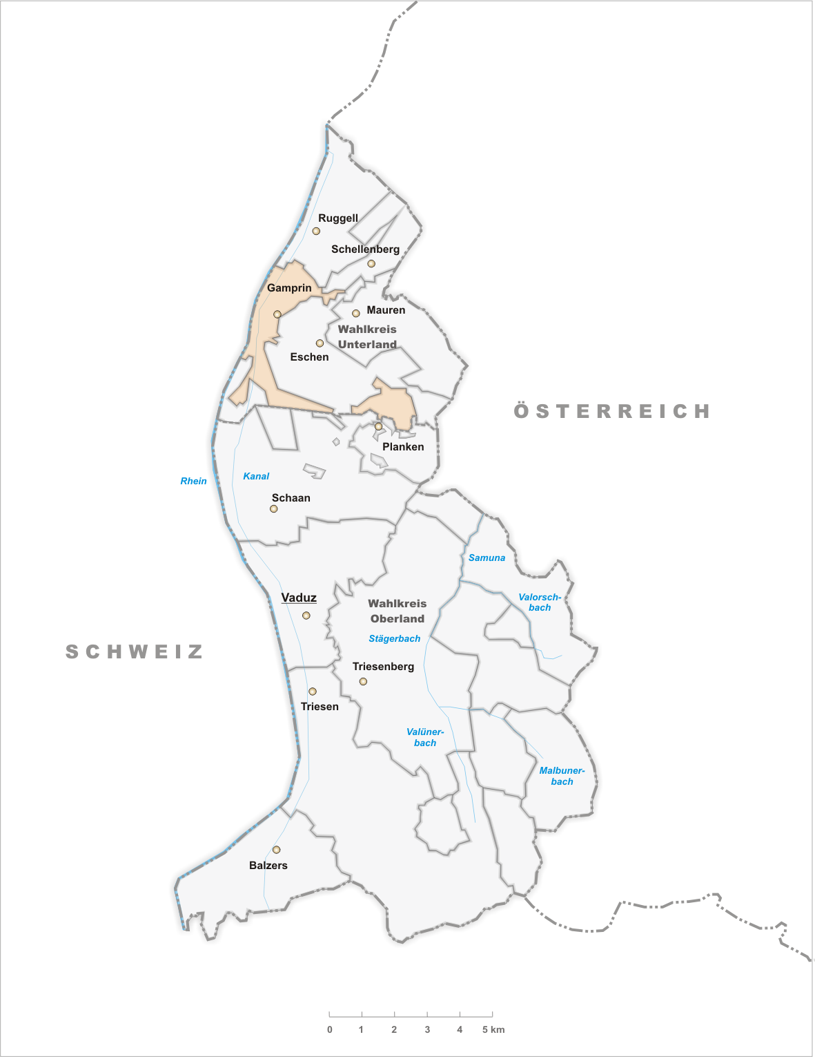 Municipality Gamprin